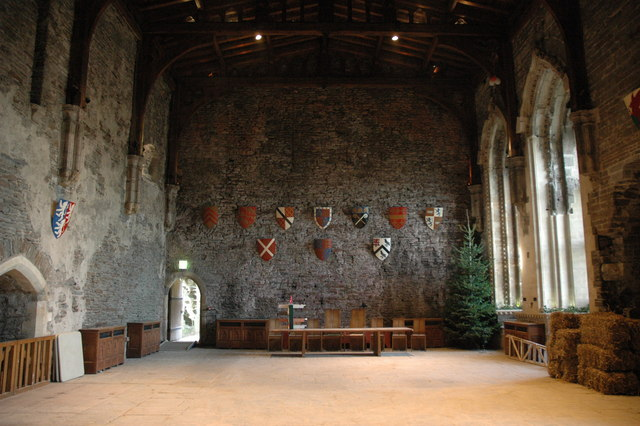 The Great Hall, Caerphilly Castle The Great Hall of Caerphilly dates from the early 14th century and was probably built for Hugh Despencer the Younger. A new roof was added for the third marquess of Bute in 1870s.